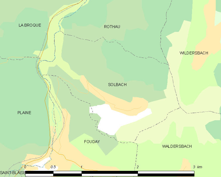 Map of French municipality